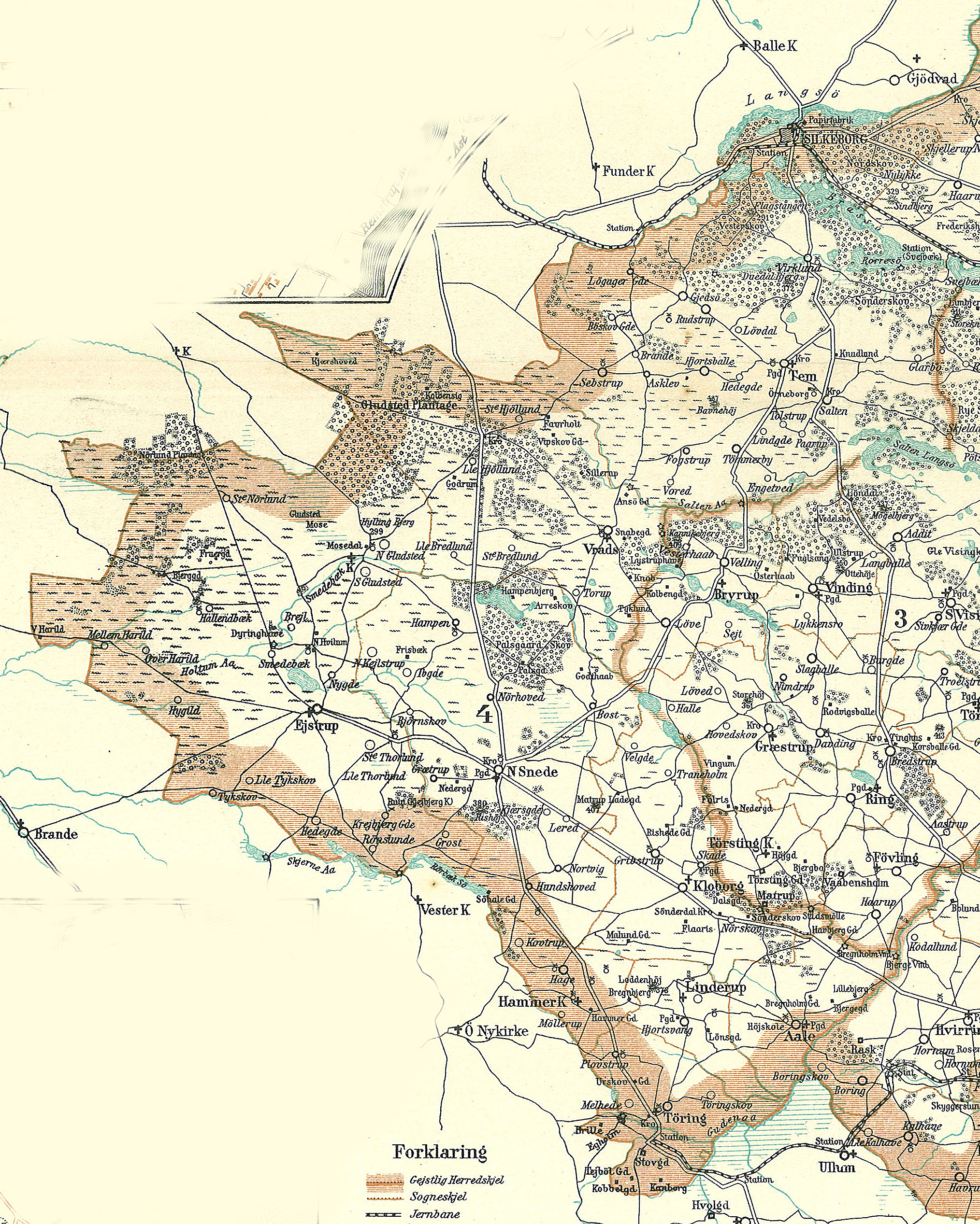 Map of Vrads Herred in Skanderborg County in Denmark